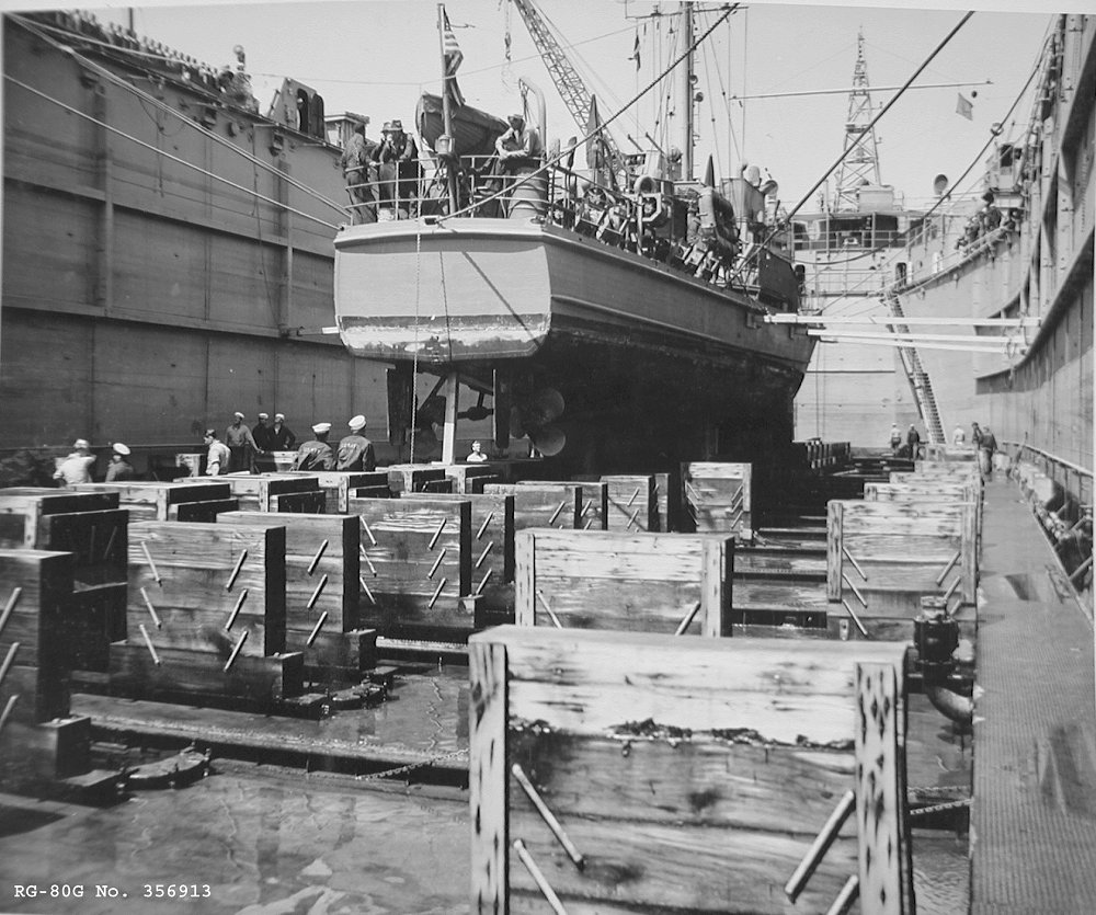 USS ARD-18 with USS SC-1372 in her basin while undergoing training at the Floating Dry Dock Training Center, Tiburon, CA., 1 April 1944. US National Archives photo # 80-G-356913, a US Navy photo now in the collections of the US National Archives